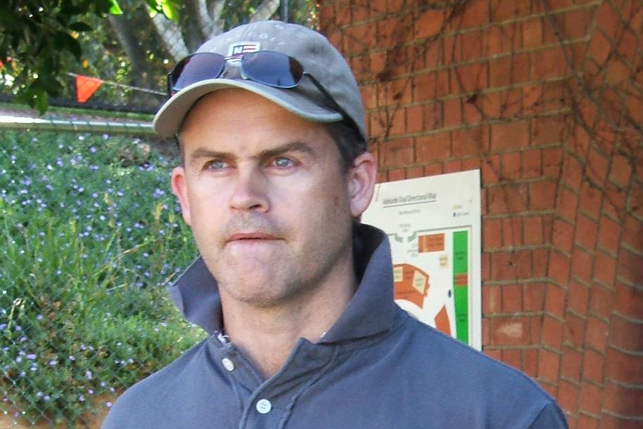 Jamie Cox watching at a training session at the Adelaide Oval